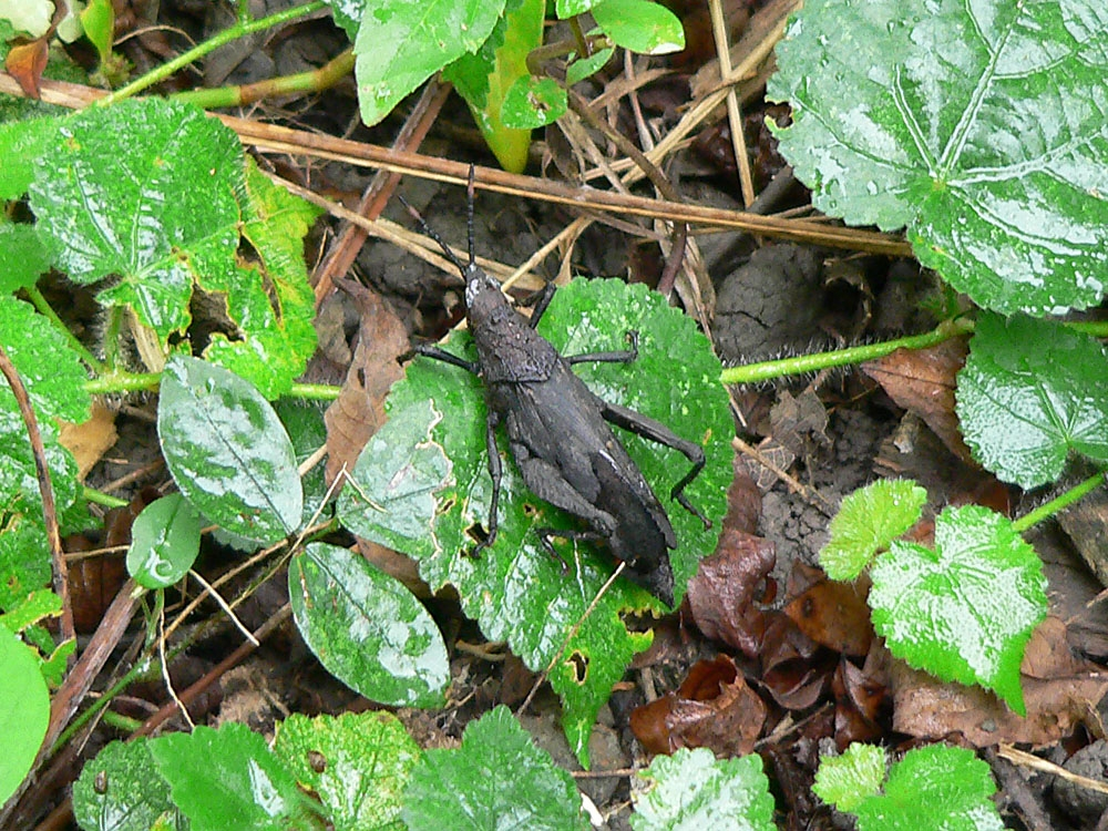 Female Maura lurida photographed in Lama Forest, Benin.